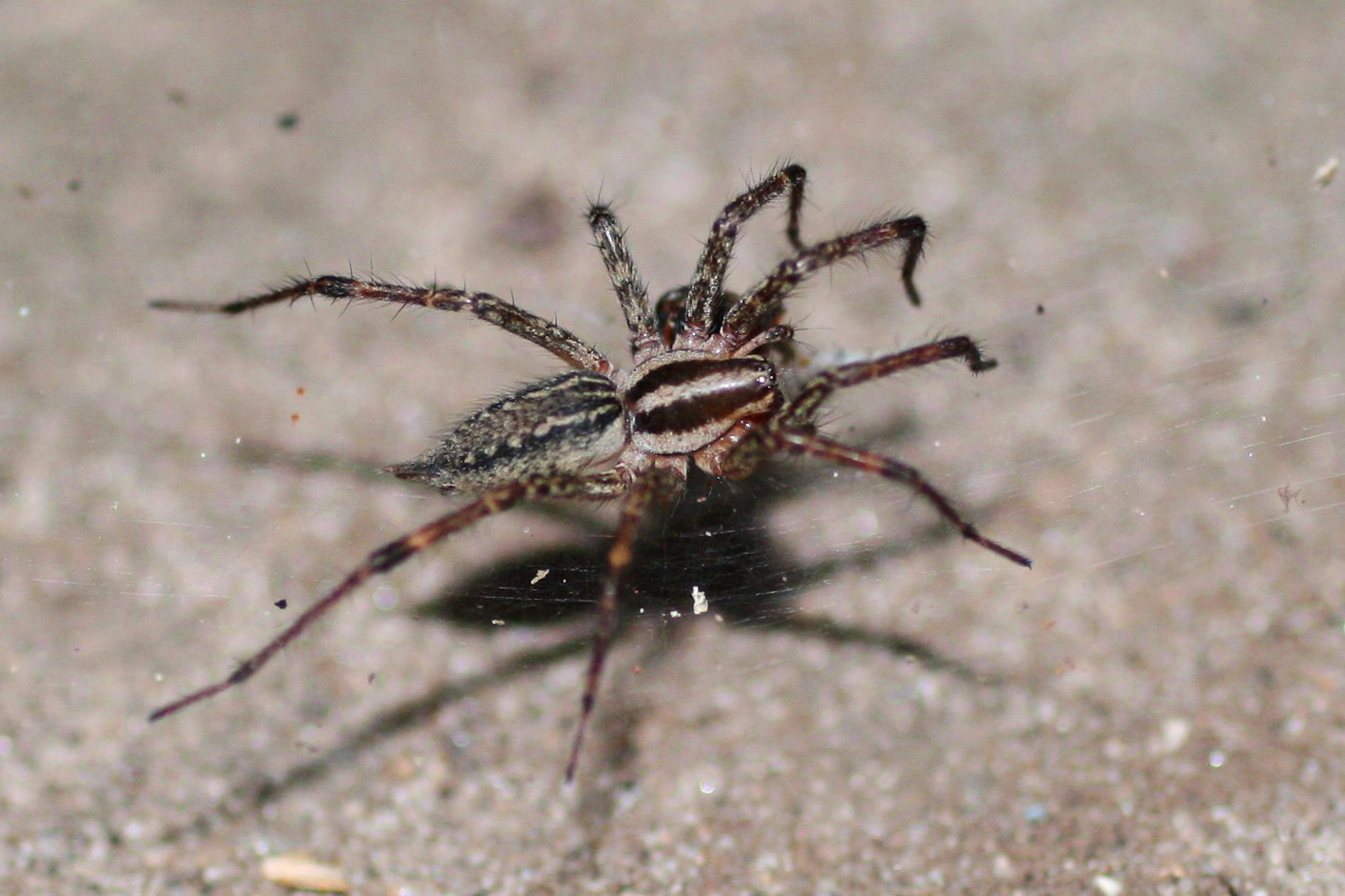 FAMILY: AGELENIDAE (funnel weavers) Genus: Agelenopsis (grass spiders) Species: Agelenopsis naevia Picture taken in my backyard, southern Ontario, Canada.